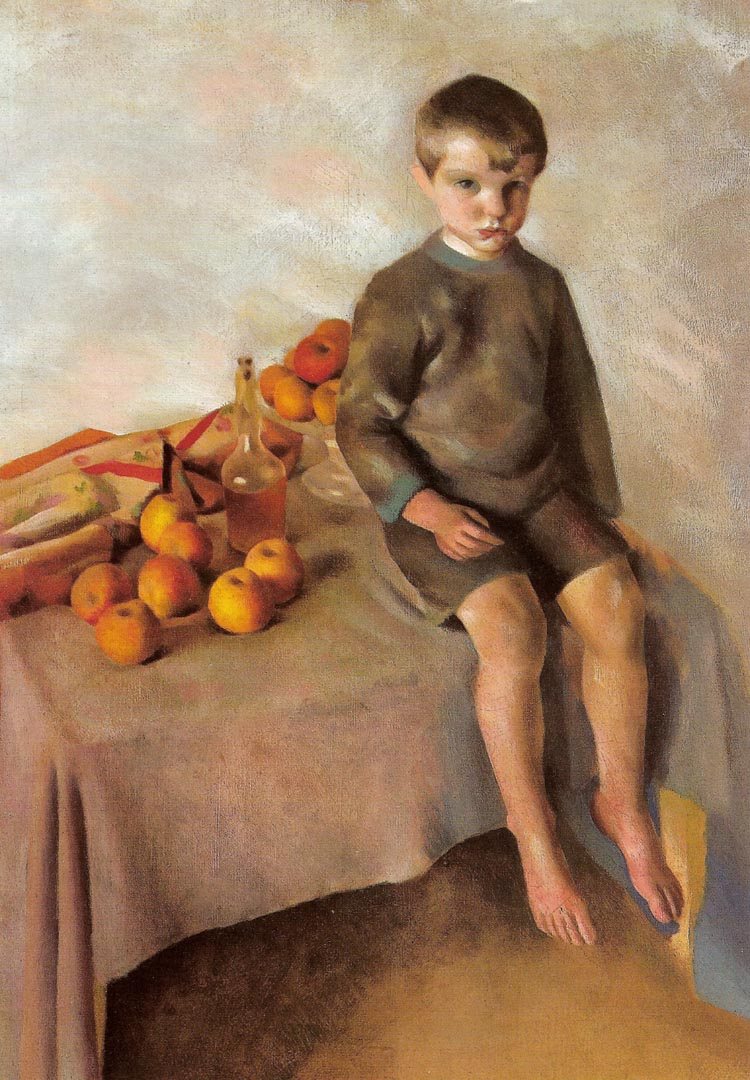 Jacek Mierzejewski: Andrew with apples